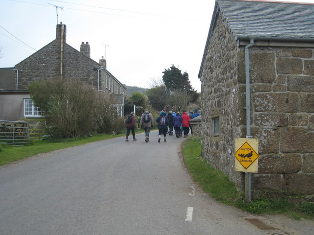 Beware of ducks crossing! On the B3306 at Trewey.